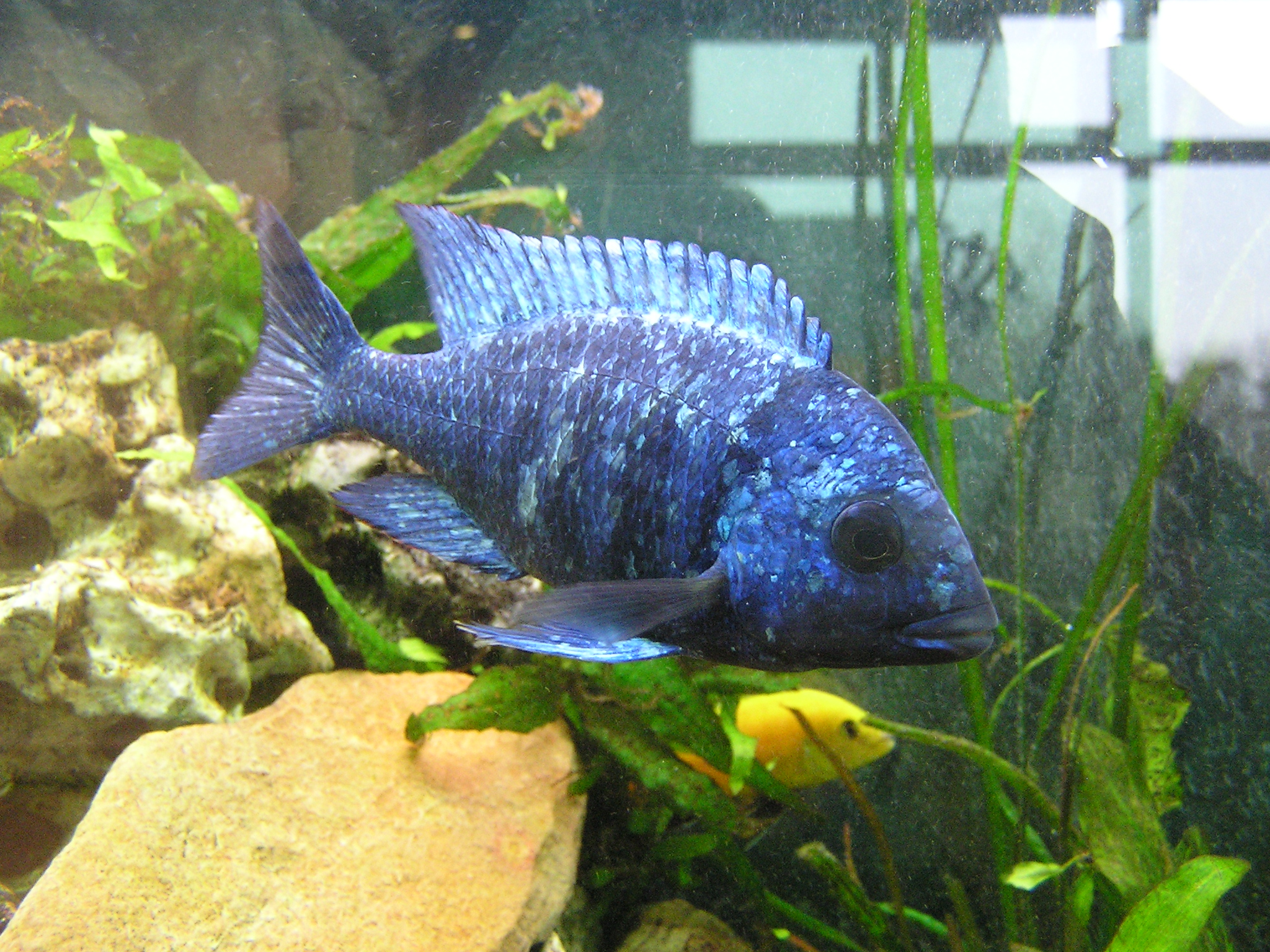 Placidochromis phenochilus (younger male), a cichlid from Lake Malawi, in an aquarium